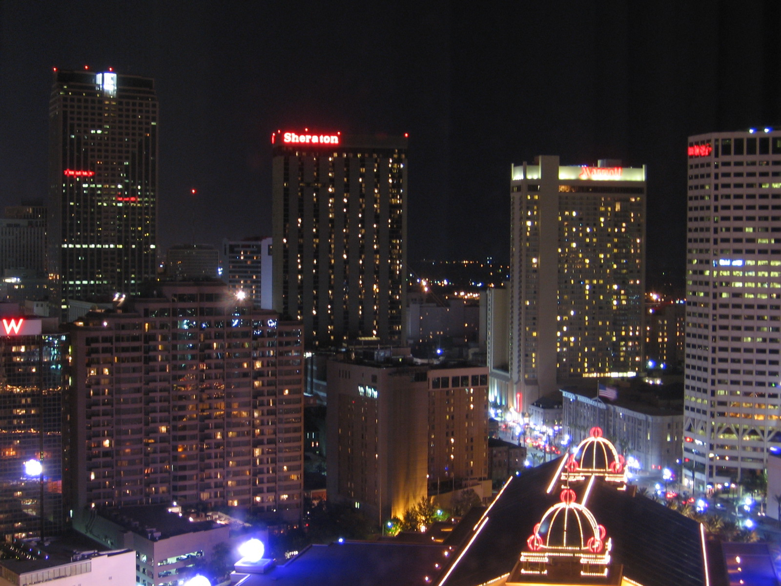 New Orleans nightshot. View from near Poydras & the River, looking towards Canal Street & Lakewards, August 2006.